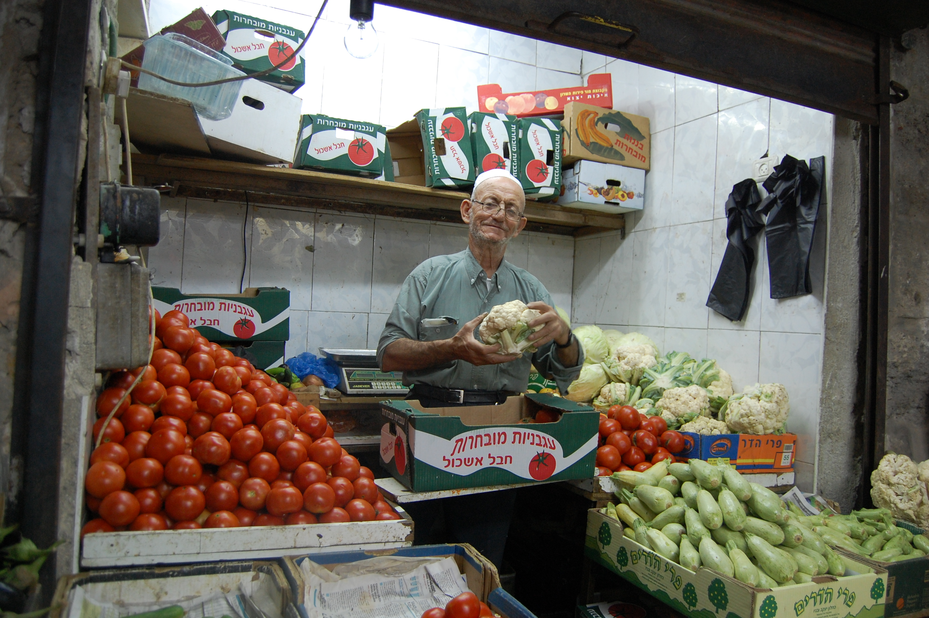 Greengrocer in his stand. Jerusalem Old City.